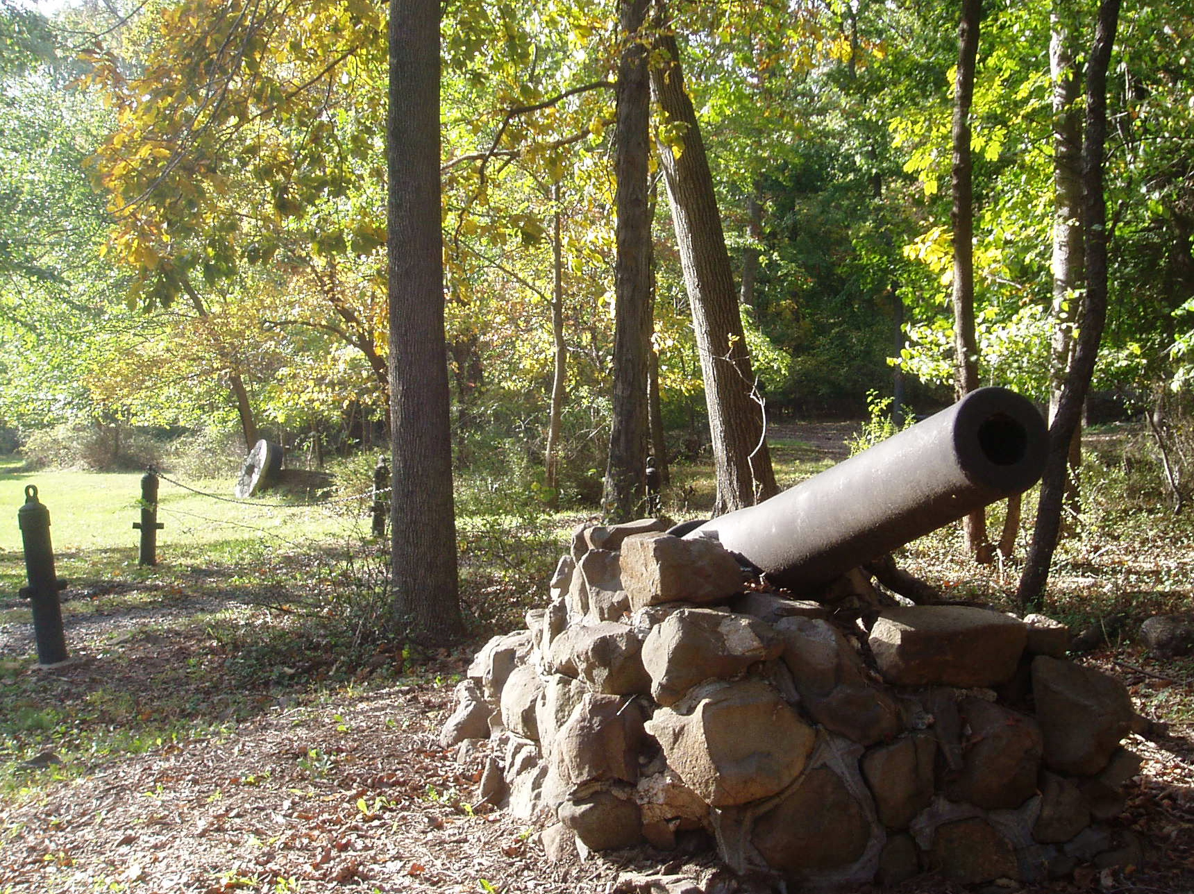 Middlebrook encampment, Bridgewater, NJ , 2005